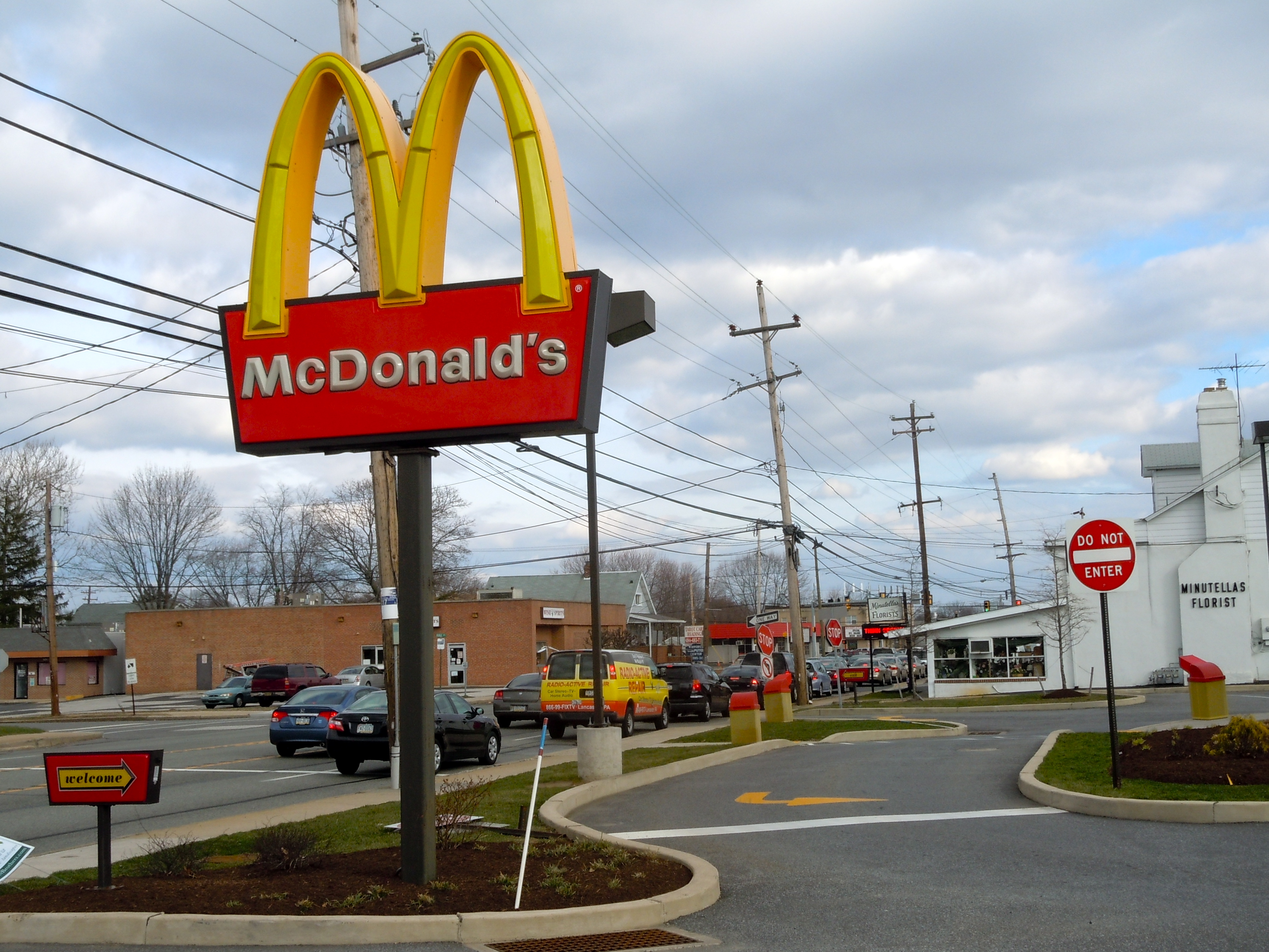 North of Intersection of PA 352 and Brookhaven Road, in Brookhaven, Pennsylvania, north of Chester, PA in Delaware County, PA. Coords 39.8731,-75.3892. Sorry Brookhavenites, I was looking for a "typical" picture of the town, but couldn't find anything more exciting than this. Drop me a line with a suggestion of what to take and I'll ge get that picture!